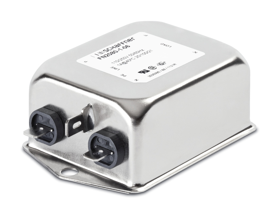 High performance Schaffner EMI Filter for 1A at an ambient temperature of 40°C